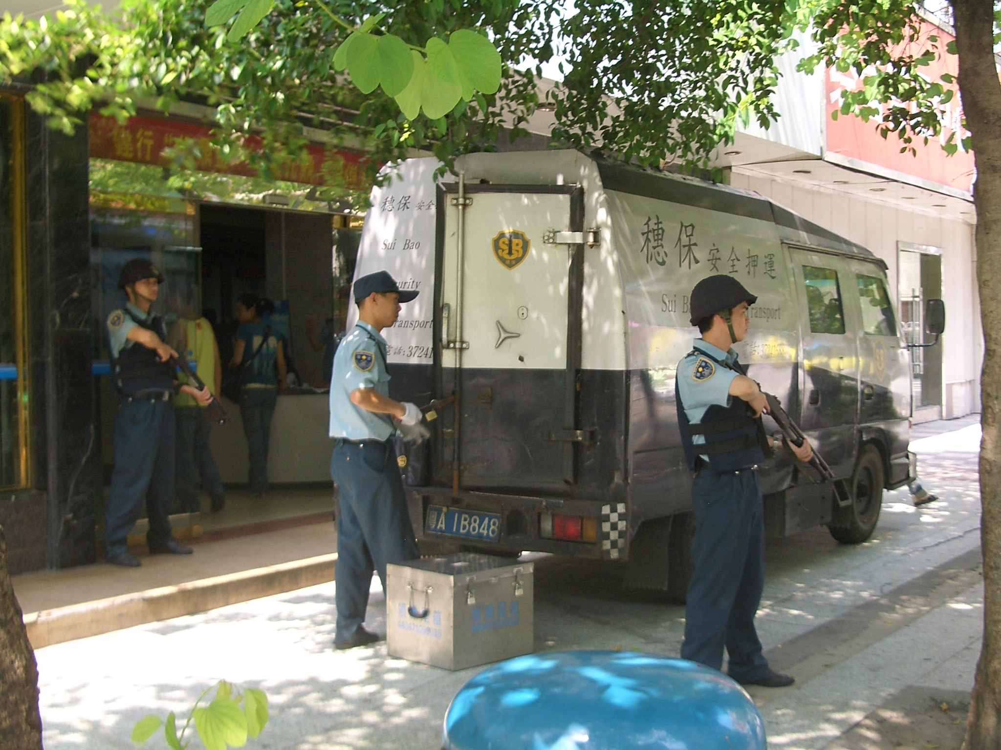 Cash transport van with guards in Guangzhou, China